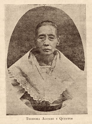 Description: Teodora Alonzo y Quintos, mother of Dr. Jose Rizal. Source: Buhay at Mga Ginawa ni Dr. Jose Rizal by Poblete, Pascual Hicaro, 1857-1921 Year Published: 1909 Information page at Project Gutenberg EText-No. 18282